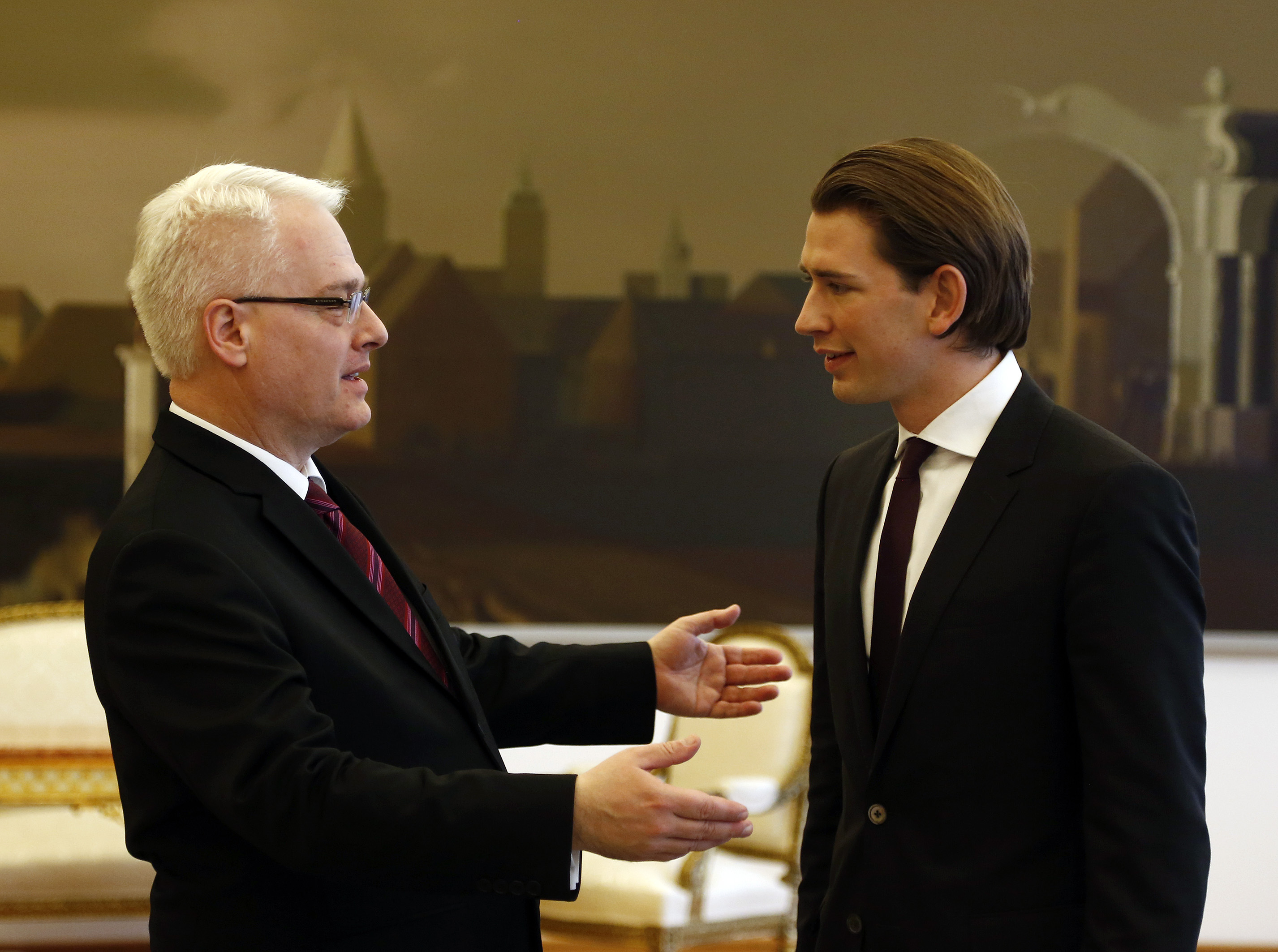 Meeting between Croatian president Ivo Josipović and Austrian foreign minister Sebastian Kurz in Zagreb.